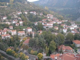 General view of Göynük.